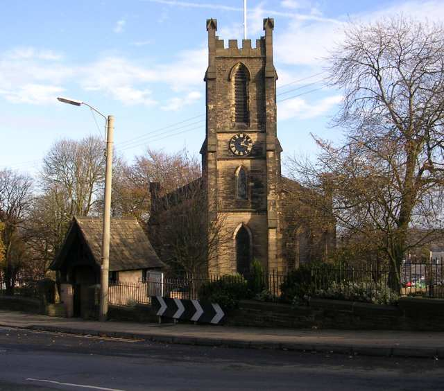 Holy Trinity Church - Town Lane - Idle, near to Esholt, Bradford, Great Britain.